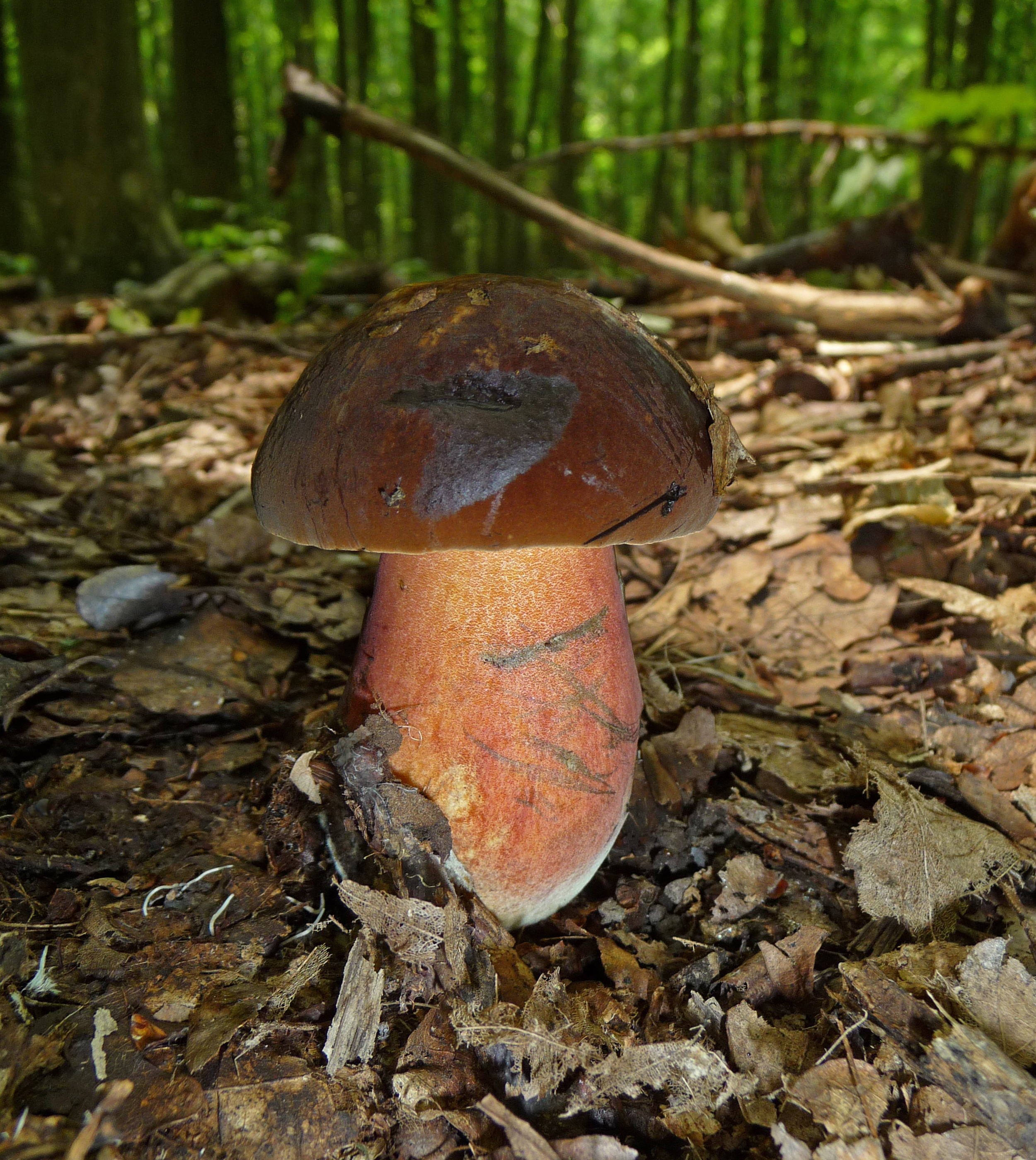 Scarletina bolete, Dotted Stem Bolete Neoboletus luridiformis. Ukraine.